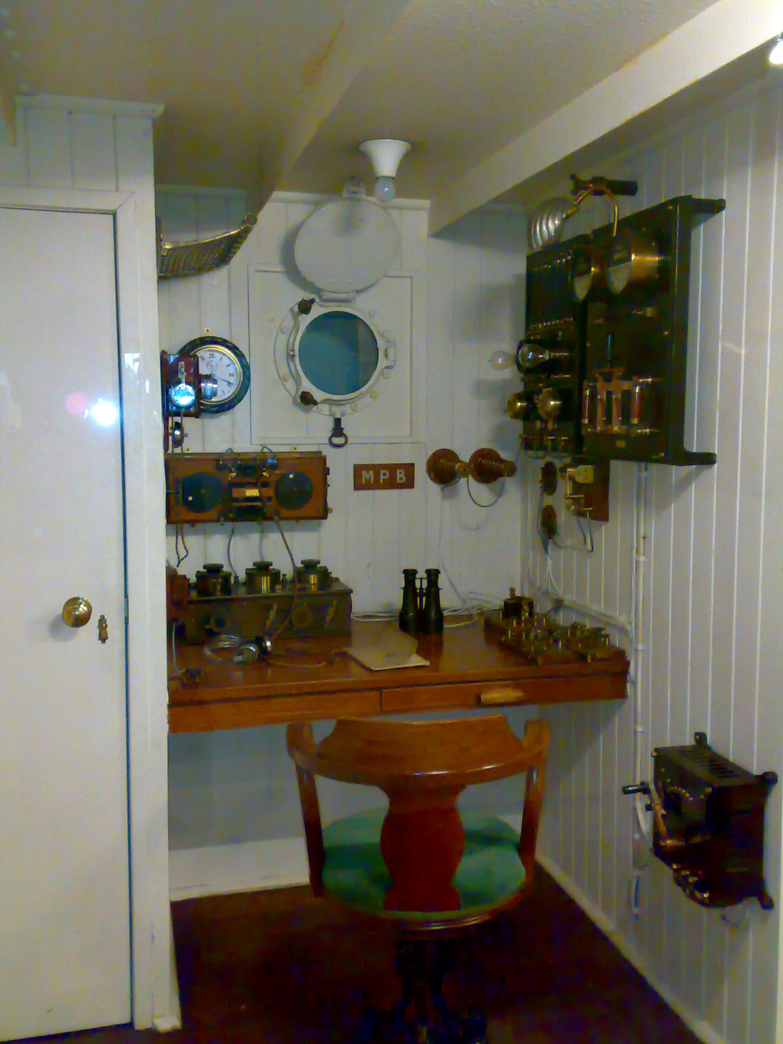 Picture of an early radio shack of a ship with callsign MPB displayed in Science Museum London